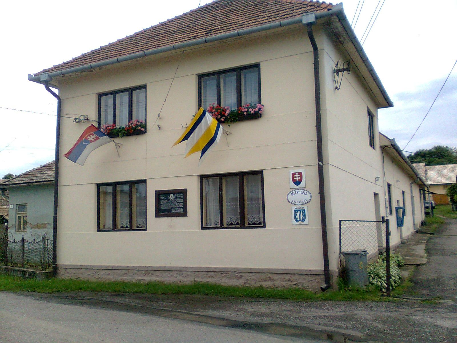 municipal ofice in Driencany in Slovakia